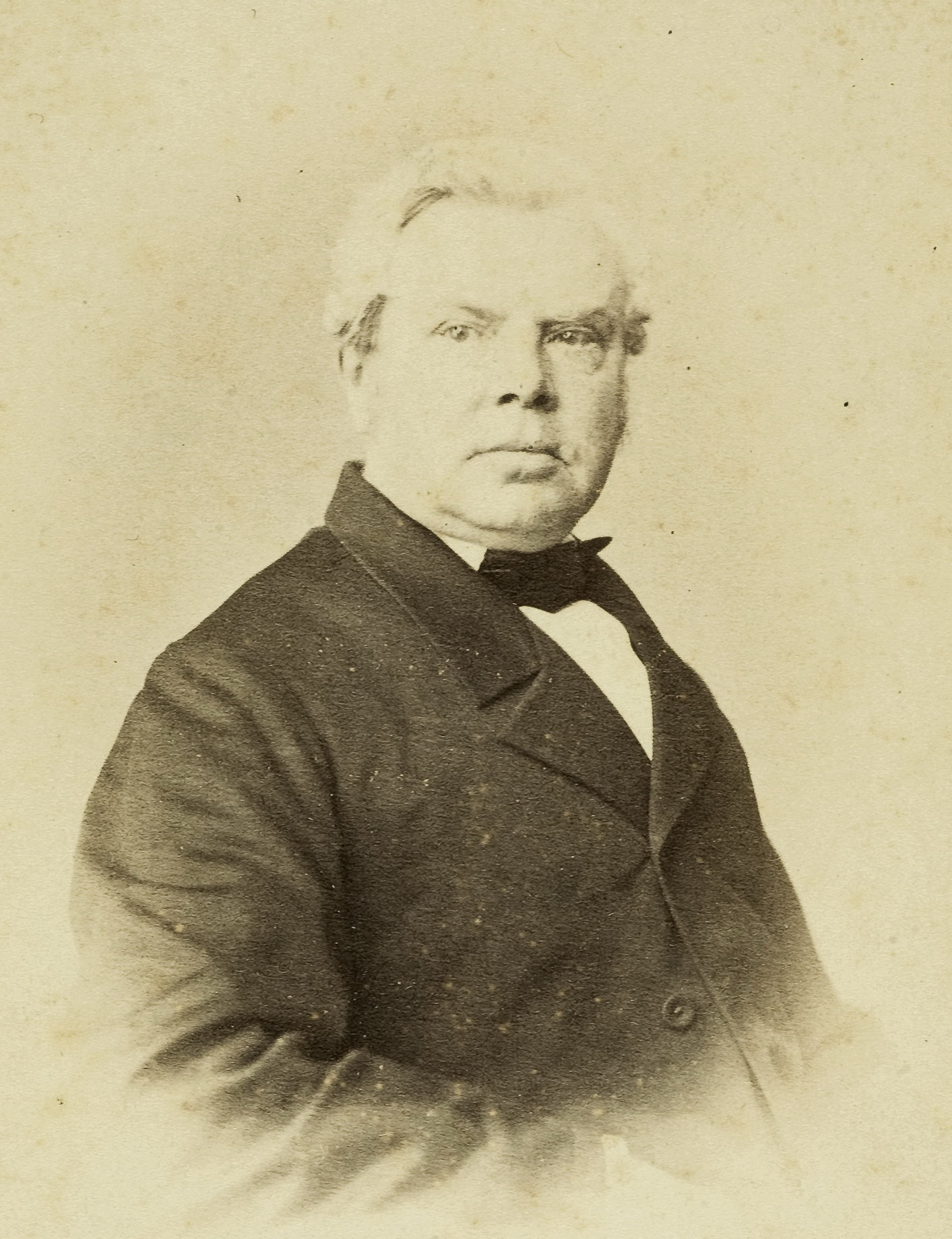 Dutch painter Constantinus Cornelis Huysmans (1810-1886)